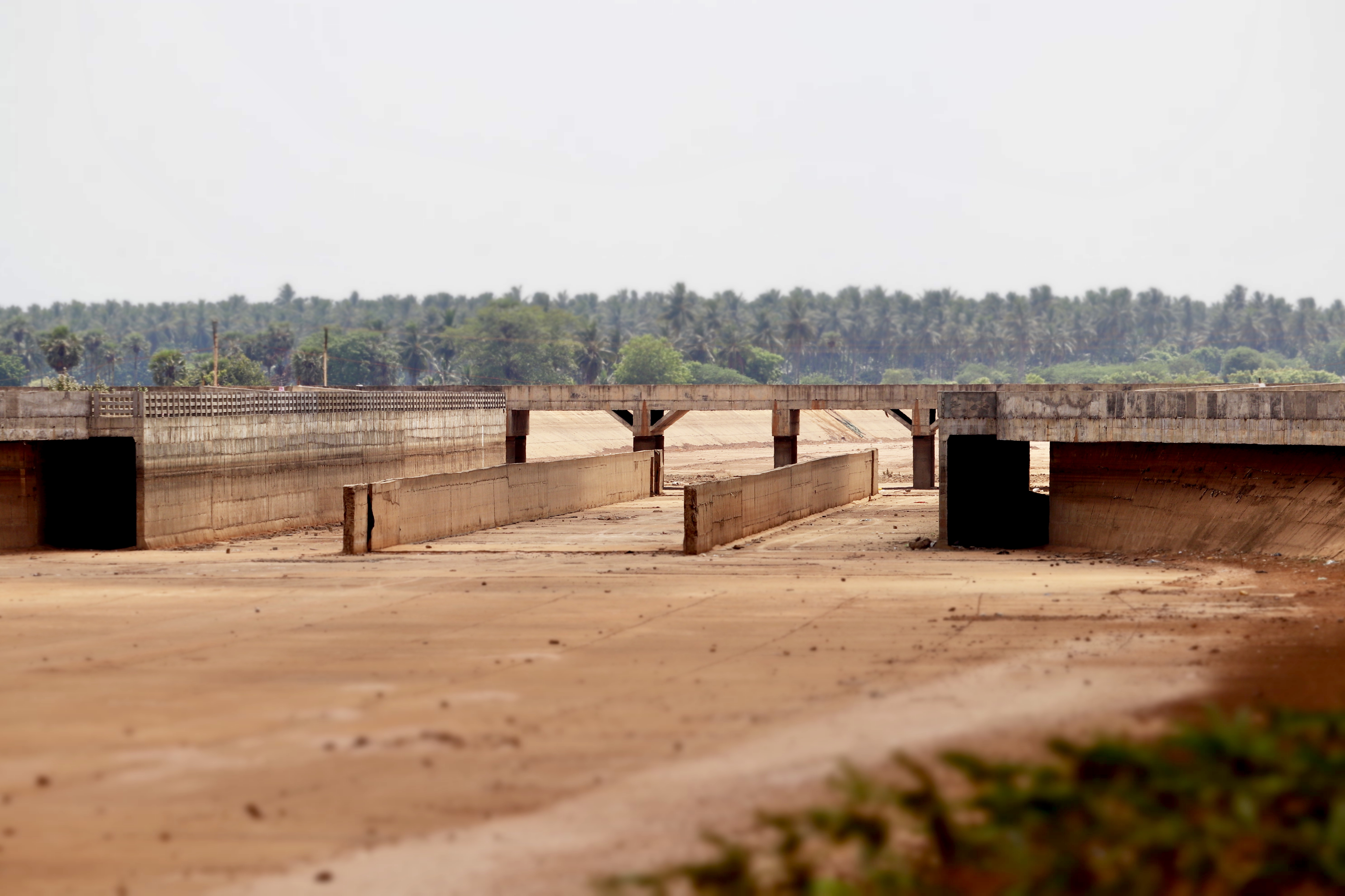 Aqueduct on Polavaram canal near Eluru